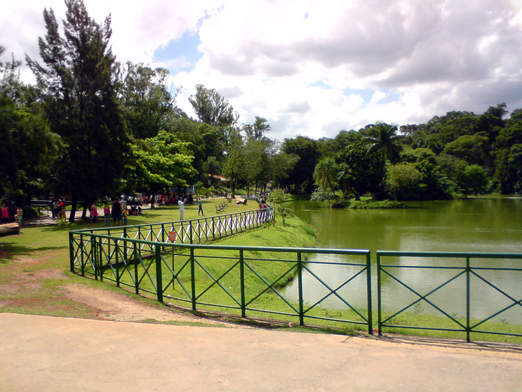 Lake with monkeys at the islands - Parque Zoológigo Municipal Quinzinho de Barros at Sorocaba - SP - Brazil